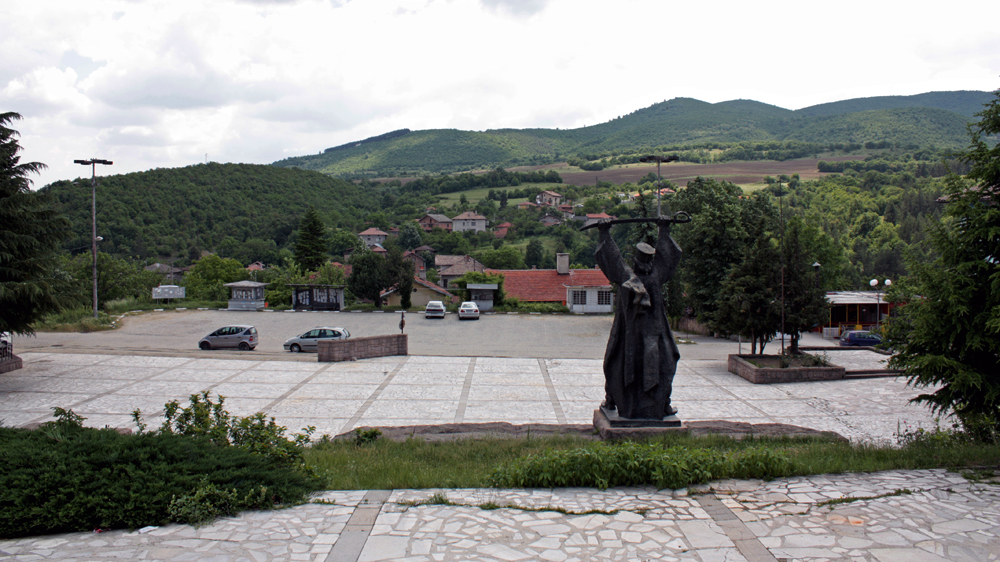 Banya, Pazardzhik Province main square - view from the Culture club